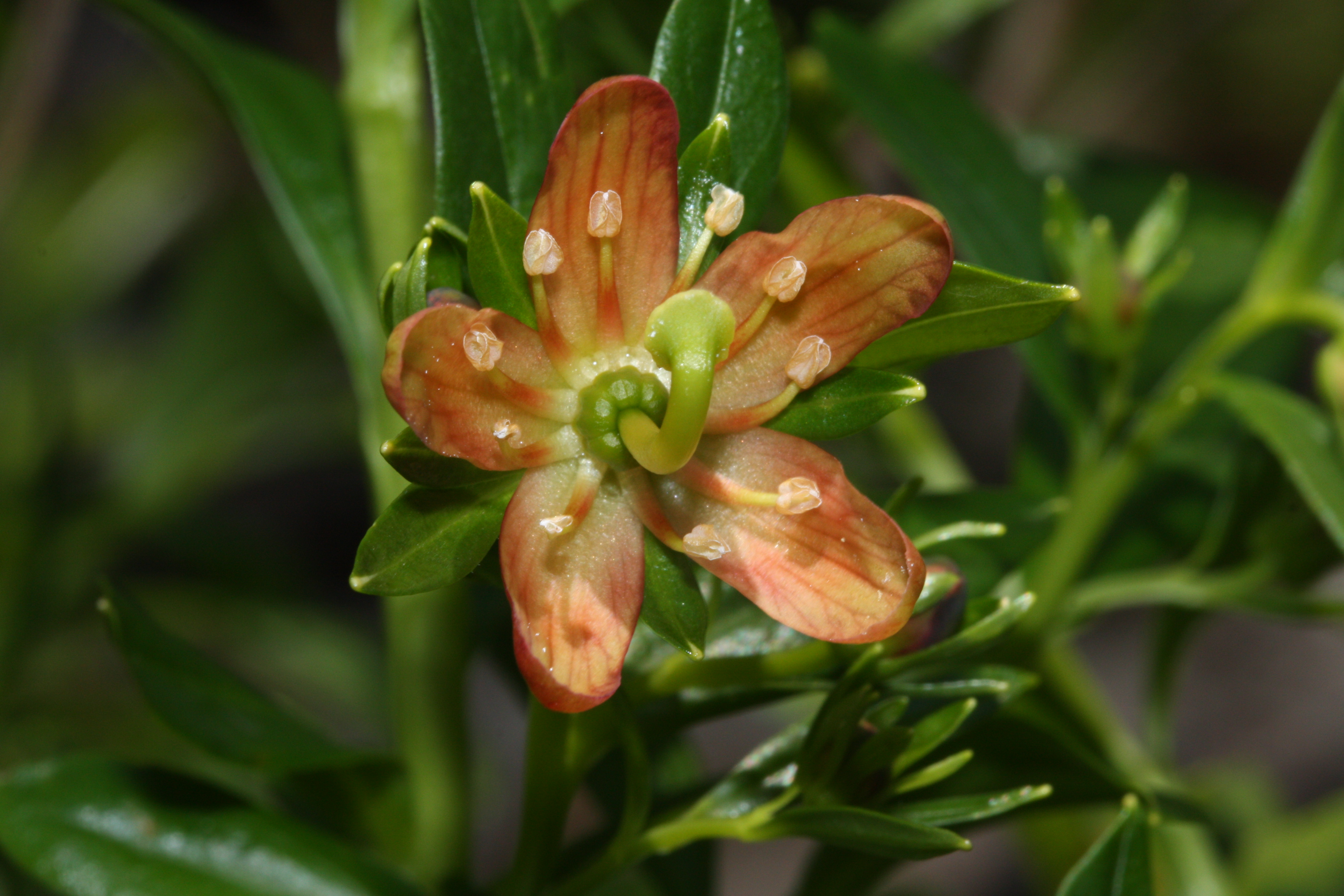 Copperbush